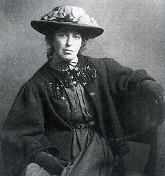 Jessie Newbery taken in 1900.